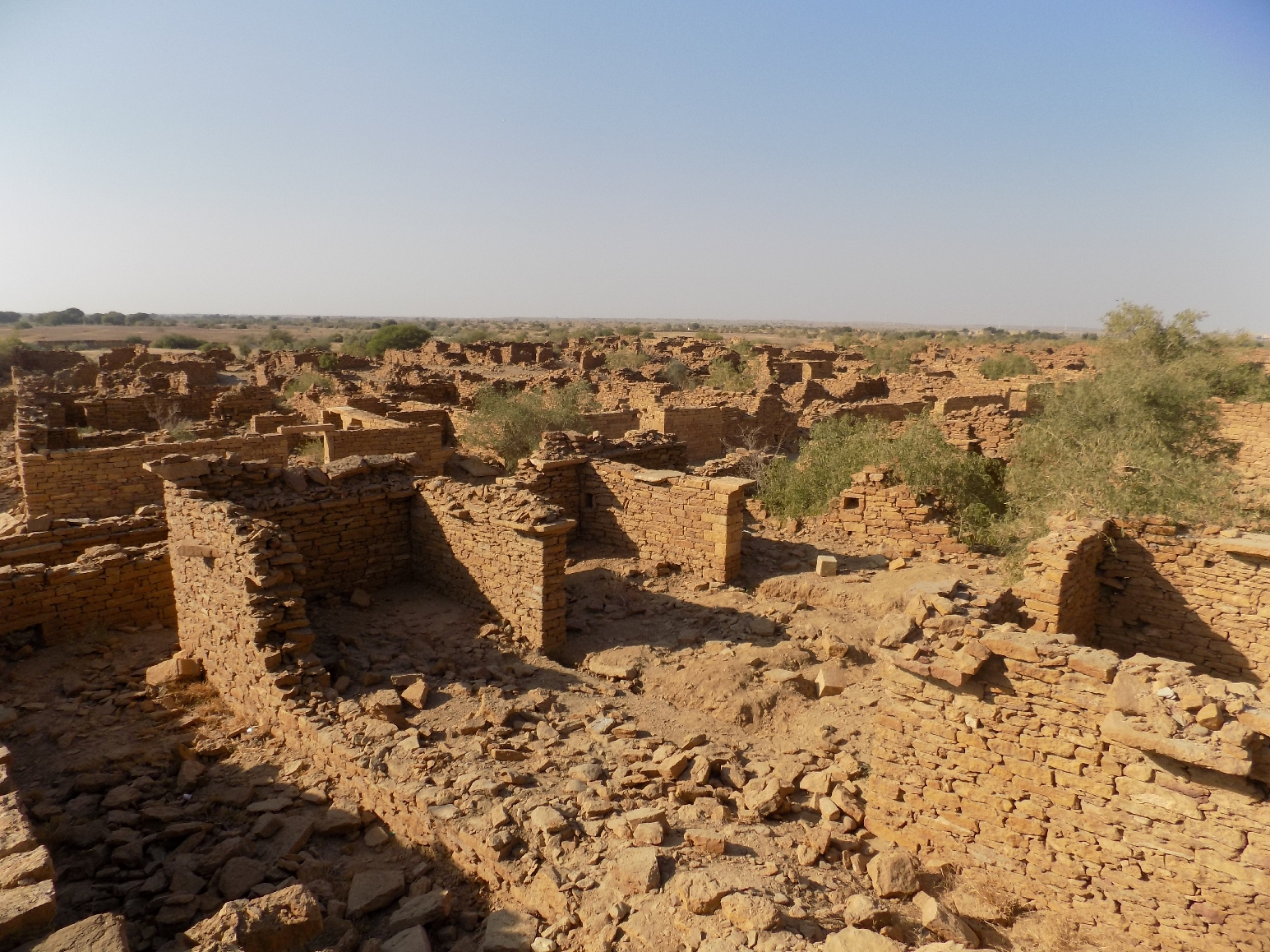 Kuldhara is the abandoned village situated 18km south-west of the Jaisalmer City, it is said that near 80 medieval villages were abandoned in an night. The Kuldhara was one of the most prominent villages in those.